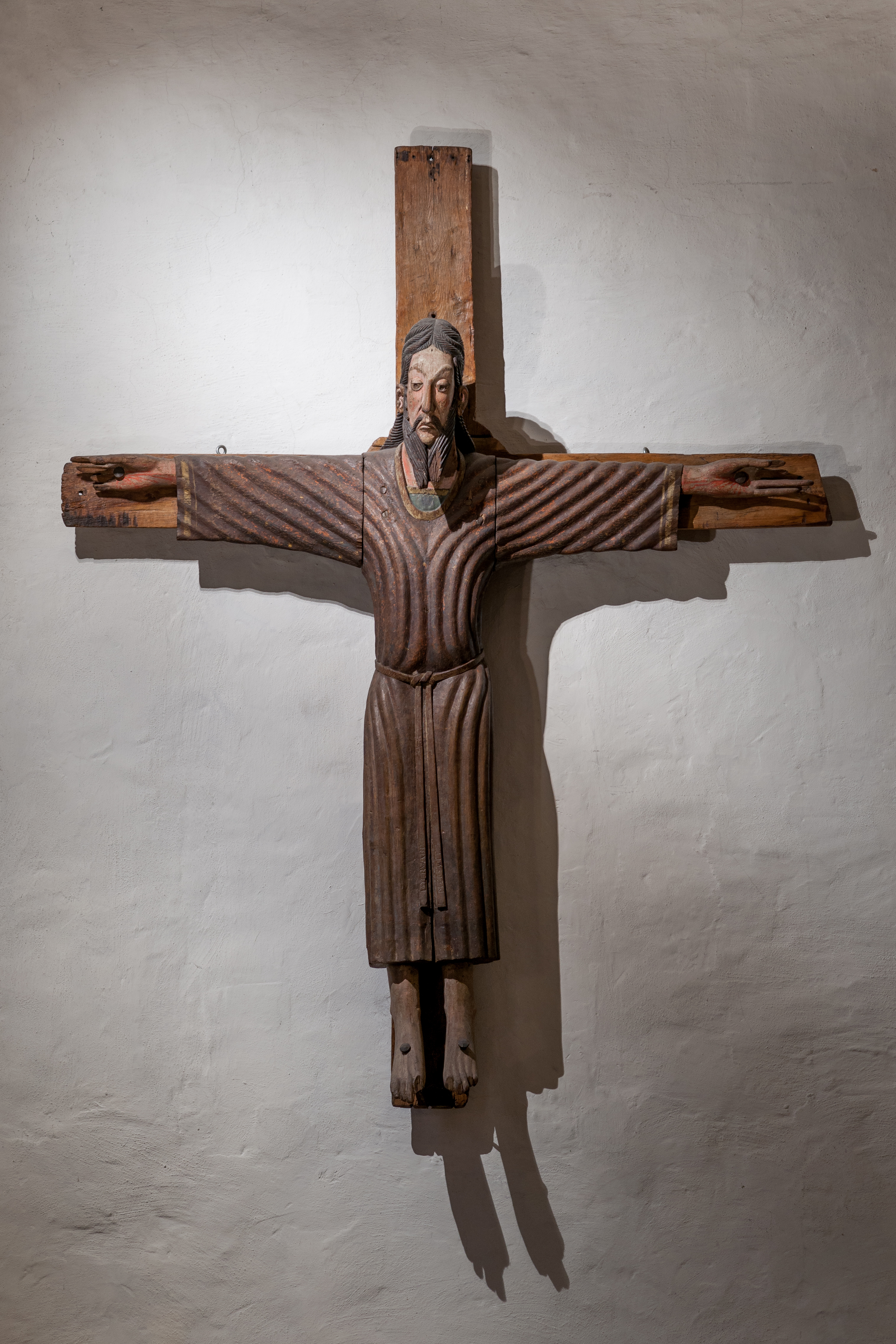 Brunswick Cathedral, Imervard Cross